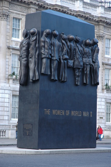 The Women of World War II Memorial Standing just up from the Cenotaph in Whitehall this memorial to the women lost in the Second World War was unveiled by the Queen on 9 July 2005. The memorial which is 22 feet high and made of bronze was designed in Braintree in Essex by the sculptor John Mills.